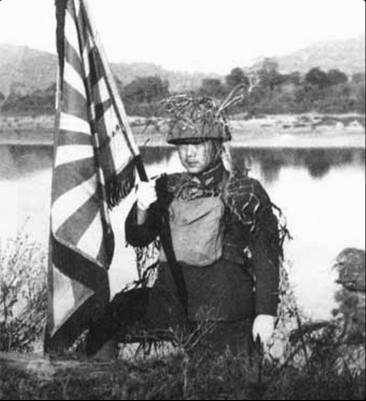 Officer of the Imperial Japanese Army 56th infantry division carrying the regimental flag, Burma 1944